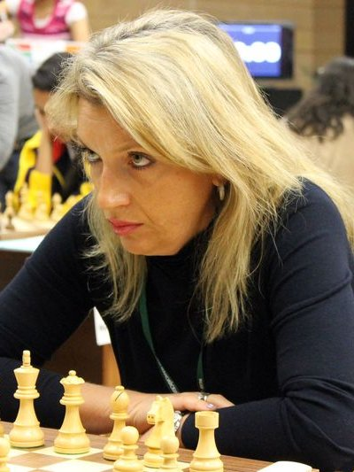 Irina Berezina, competing at the FIDE World Women's Chess Championship, Khanty-Mansiysk, November 2012.